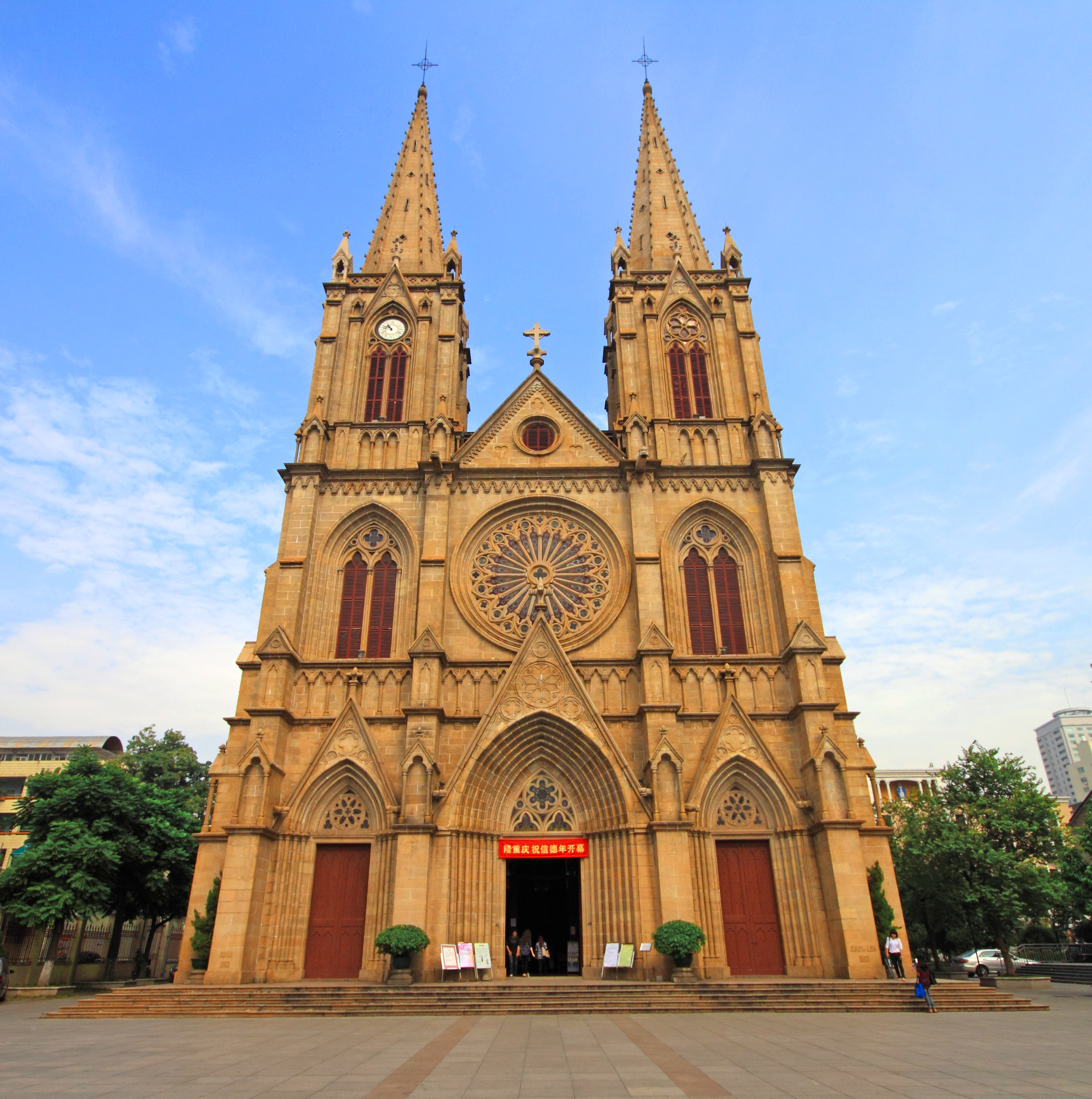 Sacred Heart Cathedral of Guangzhou，in Guangzhou, Guangdong, China.